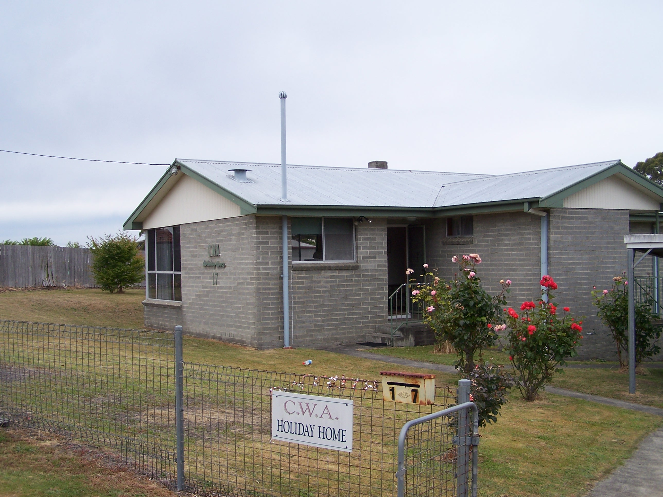 The CWA house at Snug, Tasmania.